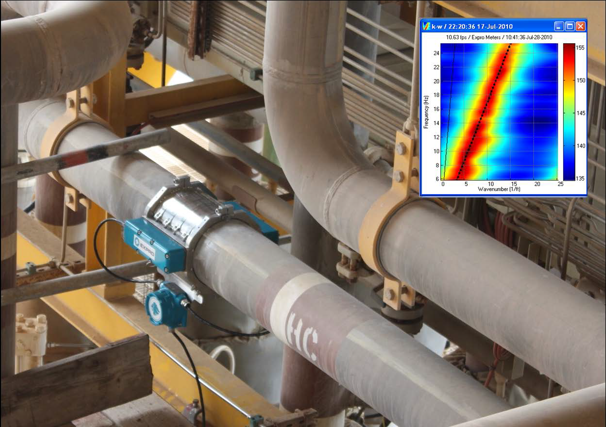 Active Sonar Flow meter on gas line